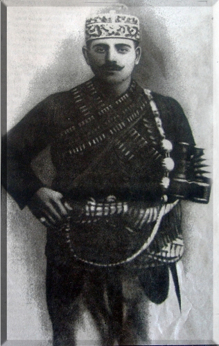 Yahya Kaptan (1891 - 1920)